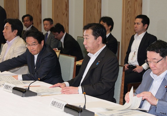 Yoshihiko Noda, Prime Minister, attended a meeting of the Consumer Policy Council with Jin Matsubara, Minister of State for Consumer Affairs and Food Safety, at the Prime Minister's Official Residence in Chiyoda Ward, Tōkyō Metropolis on July 20, 2012.